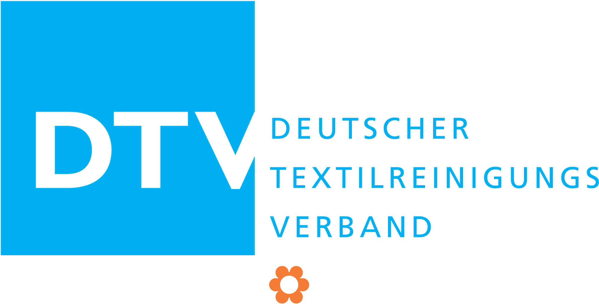 DTV Logo